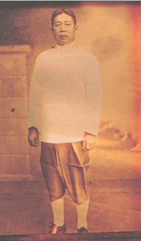 Picture of Nai Lert